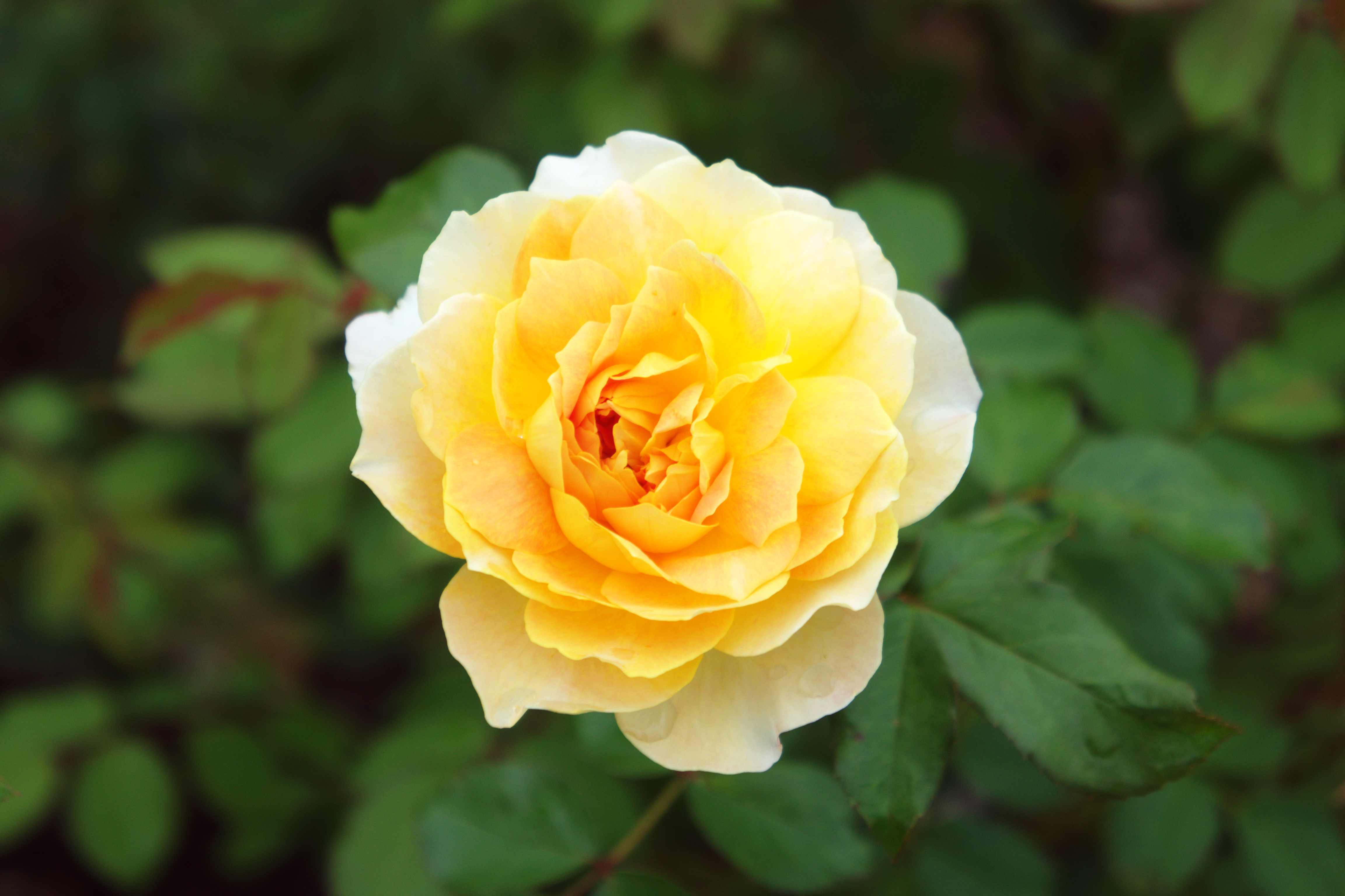 Taken at the New York Botanical Garden.